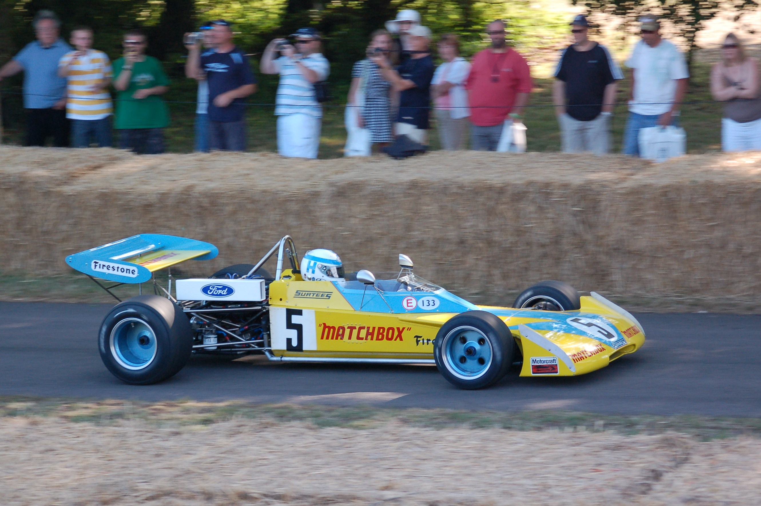 Henry Surtees demonstrating the 1972 Surtees-Hart TS10 at the Goodwood Festival of Speed.